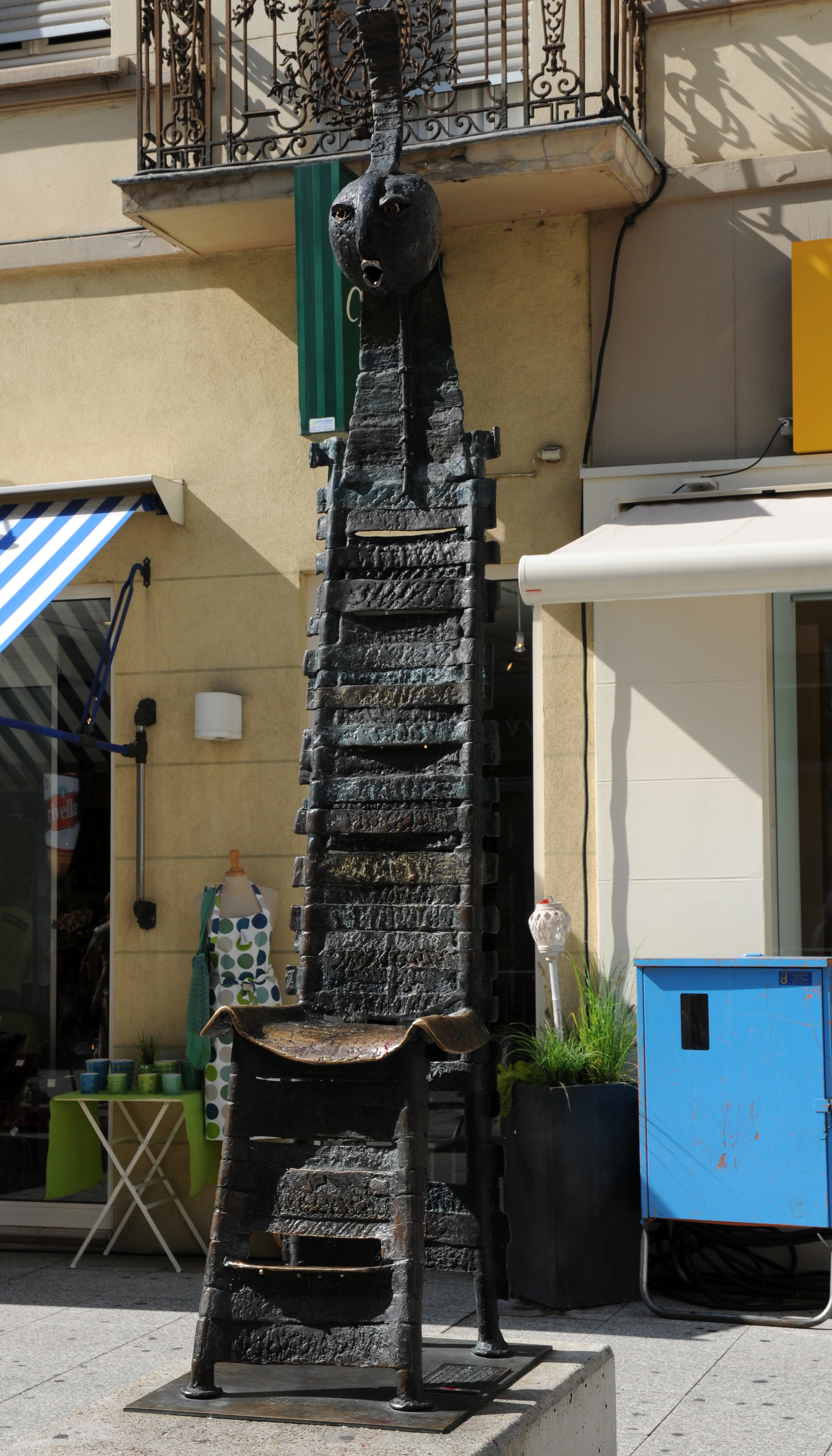 Bettina Sabbatini: Hommage aux femmes vivant et travaillant à Esch, 2006, rue de l'Alzette, Esch-sur-Alzette.